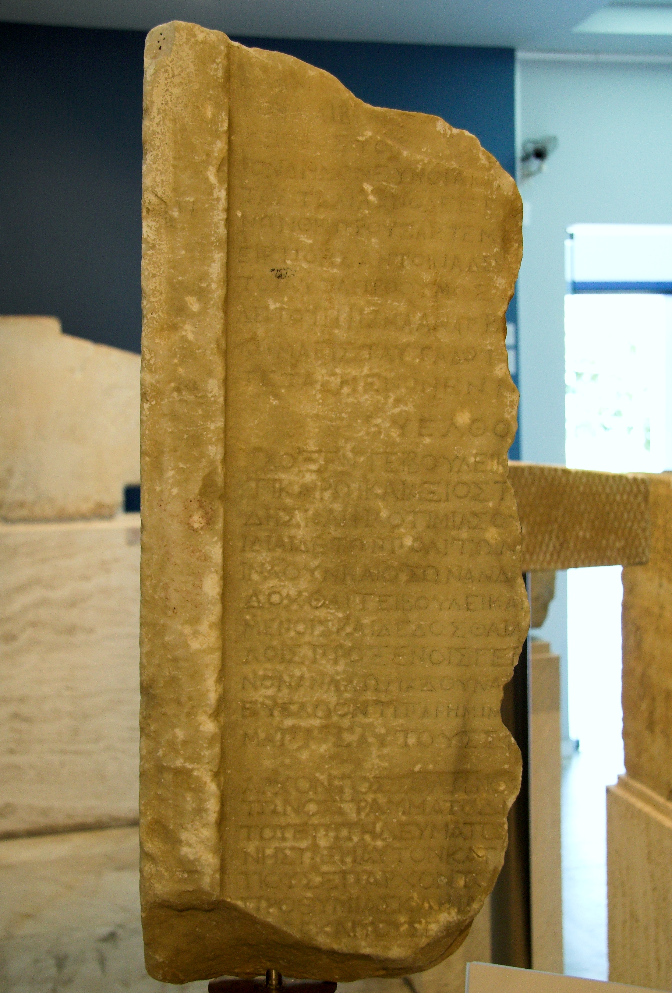 Two fragments of the same inscribed marble stele with consular decrees. Hellenistic period, 2nd century BC. Archaeological collection in Paleopolis on Andros, Inv. nos. 150-106.